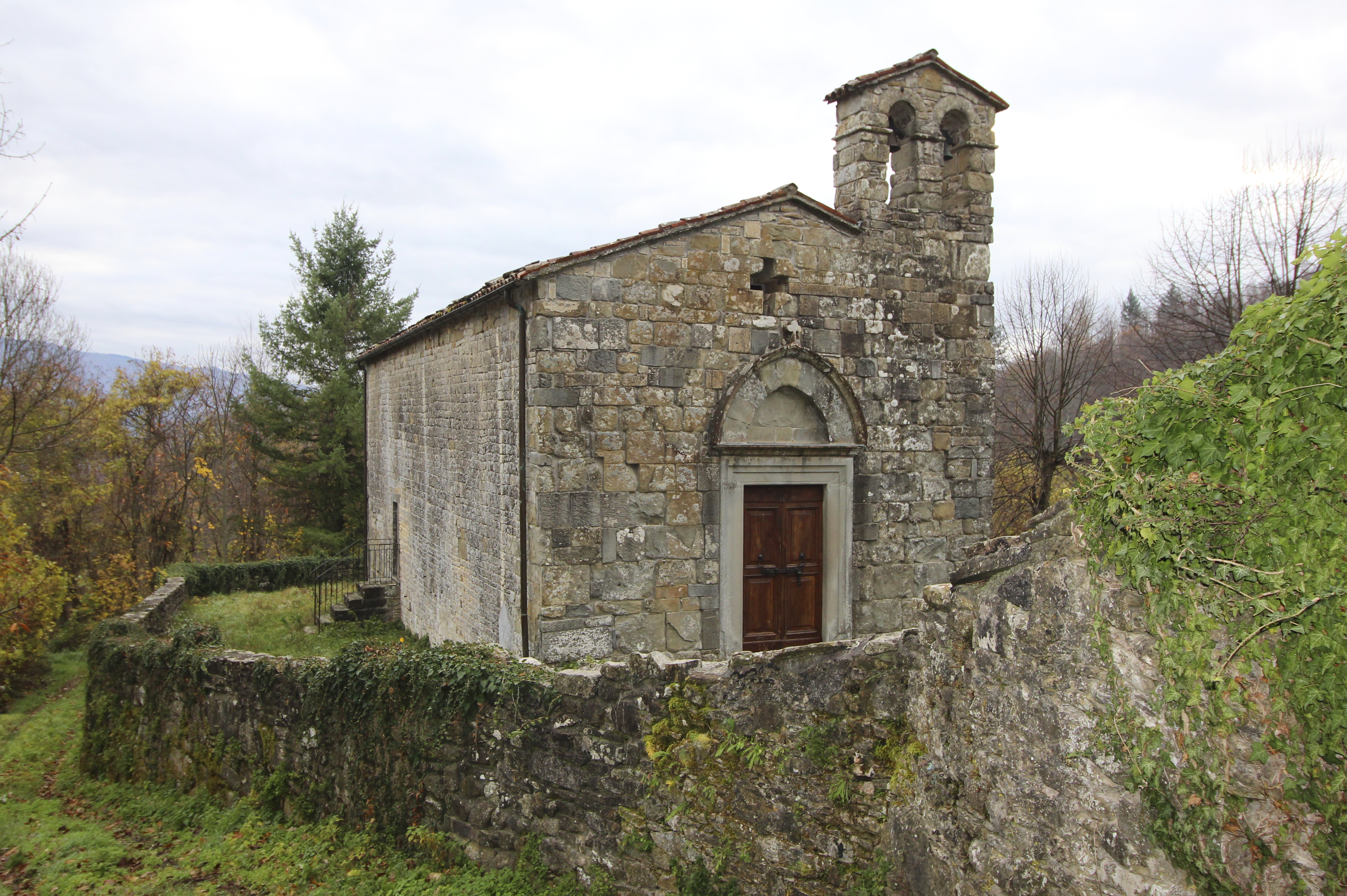 Church San Biagio, Poggio (località La Villa), hamlet of Camporgiano, Garfagnana, Province of Lucca, Tuscany, Italy